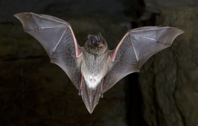 Barbastelle flying, Barbastella barbastellus